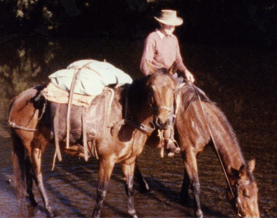 Australian stockman on mustering trip. Pack horse is carrying an army style packsaddle, together with pack bags and a swag (bedding) on top and secured by a surcingle passing over the top.